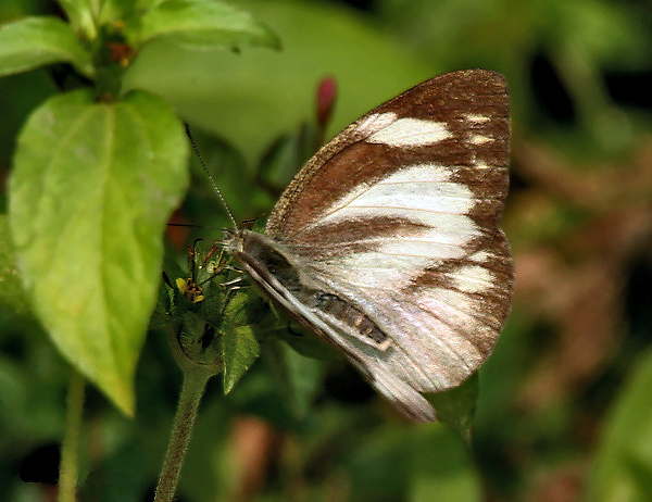 Description corrected as Eastern Striped Albatross Appias olferna - Female in Kolkata, West Bengal, India.